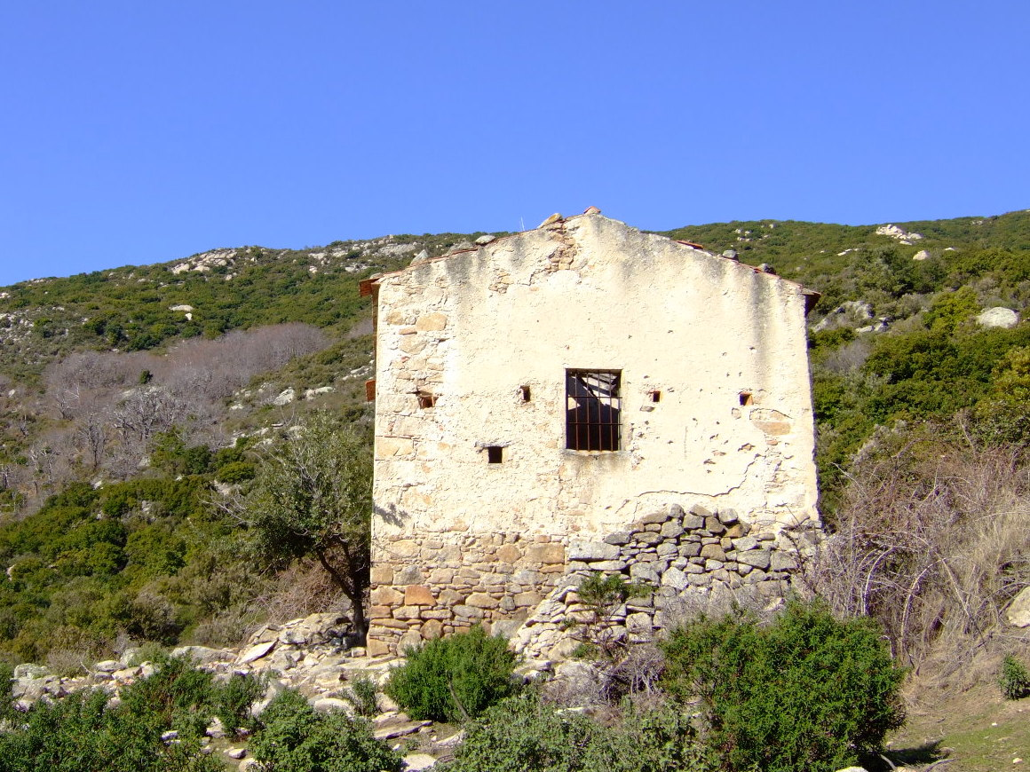 elba island